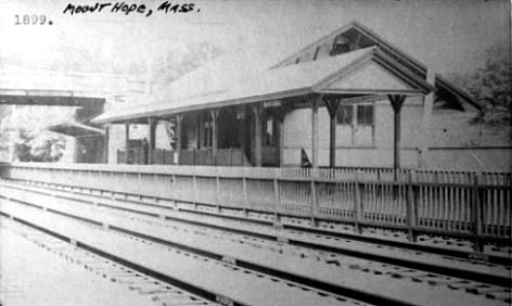 Wooden inbound depot at Mount Hope in Roslindale, Massachusetts on the mainline between Boston and Providence